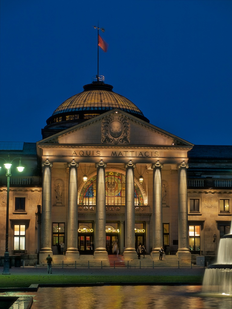 Blue Hour HDR of the Wiesbaden Kurhaus